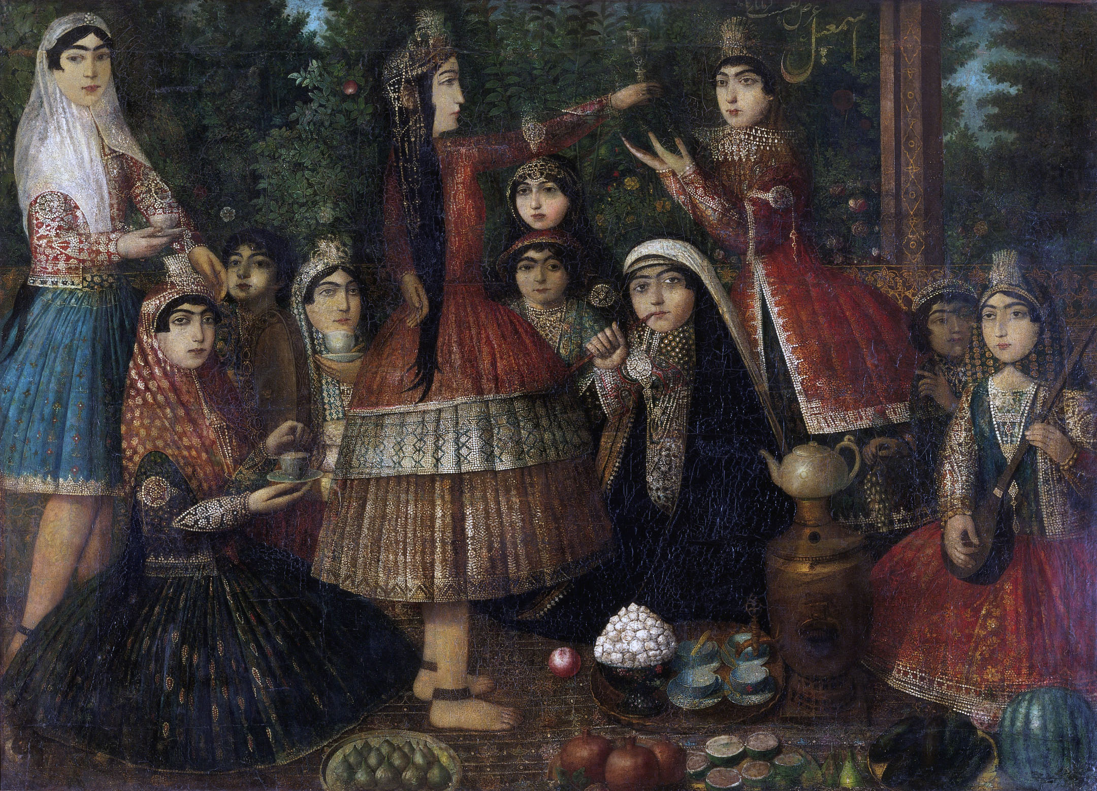 Ladies Around a Samovar, Persia.